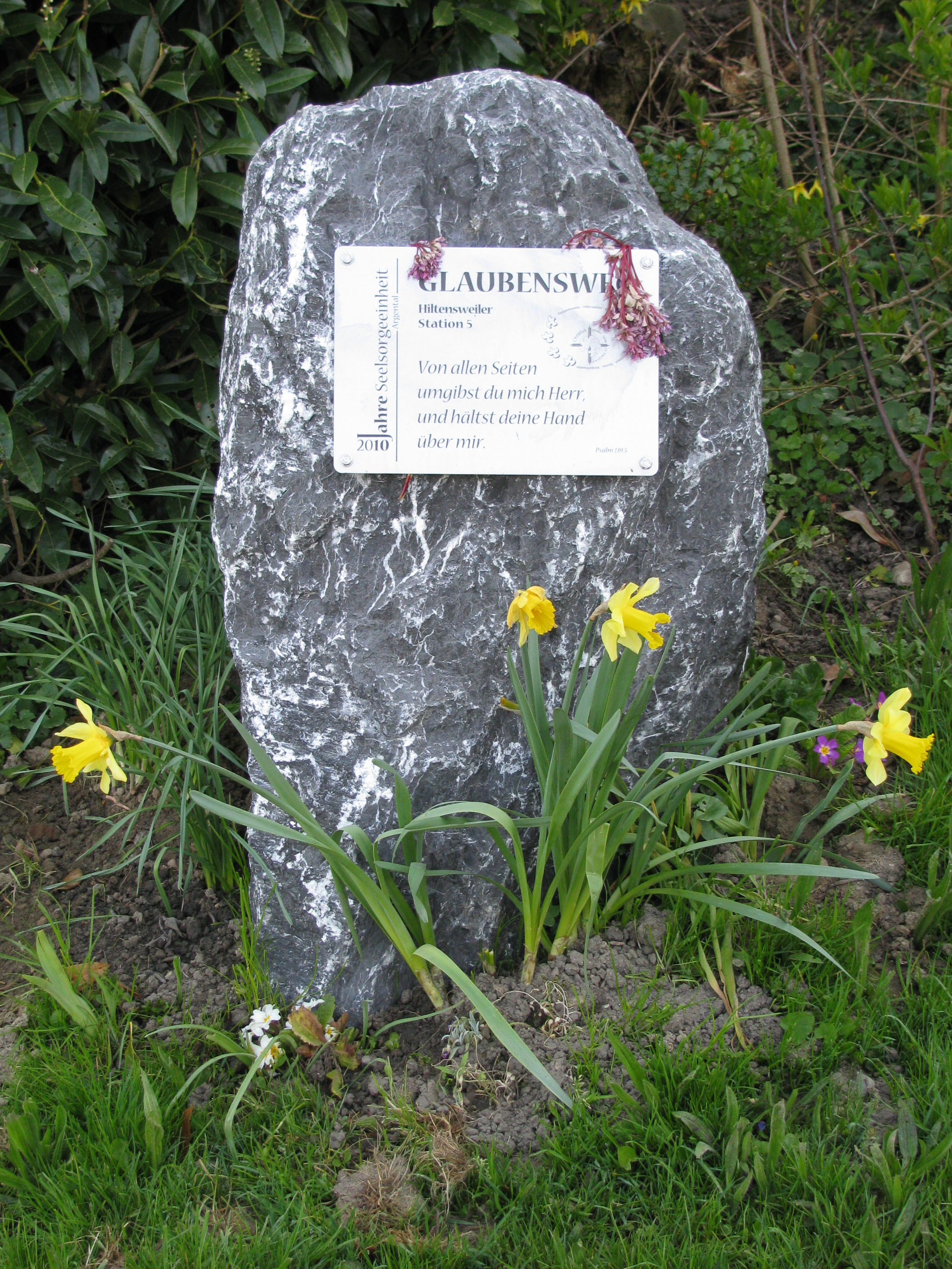 Germany - Baden-Württemberg - Tettnang-Oberwolfertsweiler